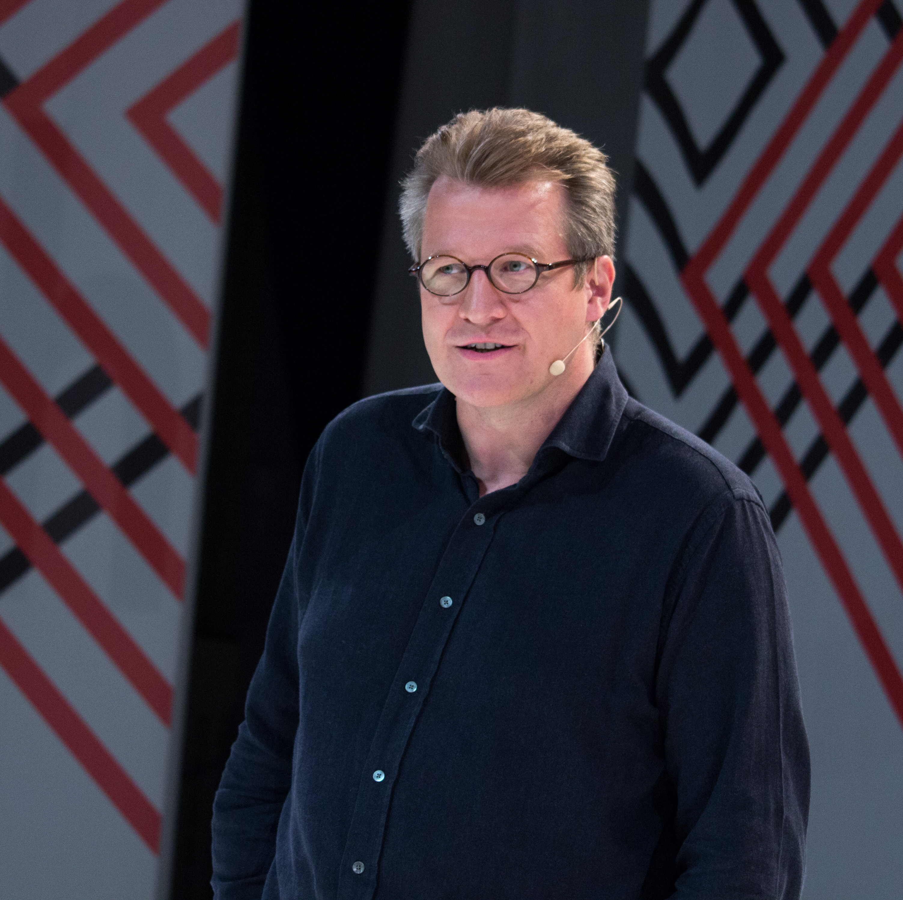 Philipp Blom at Brainwash Festivaal 2015